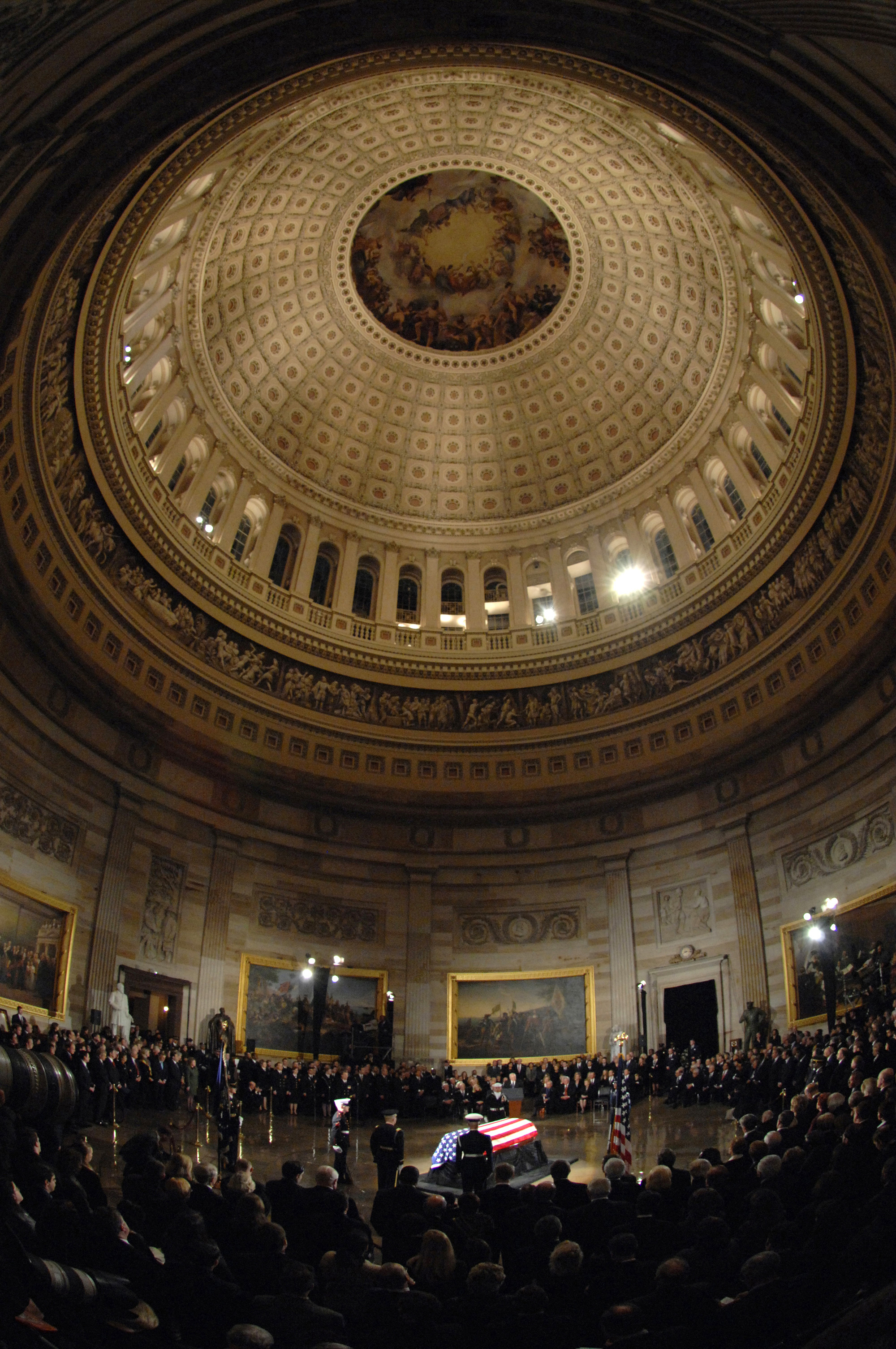 Family members, dignitaries, and members of the U.S. Senate and House of Representatives honor former President Gerald R. Ford during a memorial service in the U.S. Capitol Rotunda in Washington, D.C., Dec. 30, 2006.